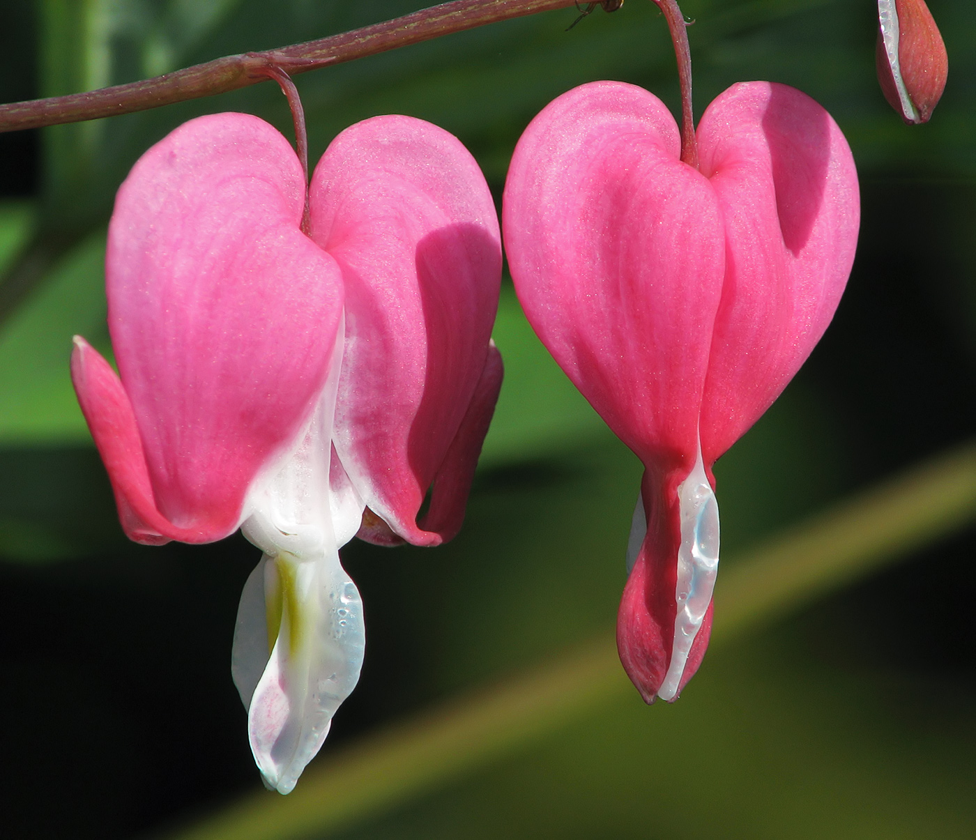 This is a featured picture on the German language Wikipedia (Exzellente Bilder) and is considered one of the finest images. If you think this file should be featured on Wikimedia Commons as well, feel free to nominate it. If you have an image of similar quality that can be published under a suitable copyright license, be sure to upload it, tag it, and nominate it. Description/Beschreibung: Tränendes Herz (Dicentra spectabilis) Author/Fotograf: Darkone, 10. Juni 2006